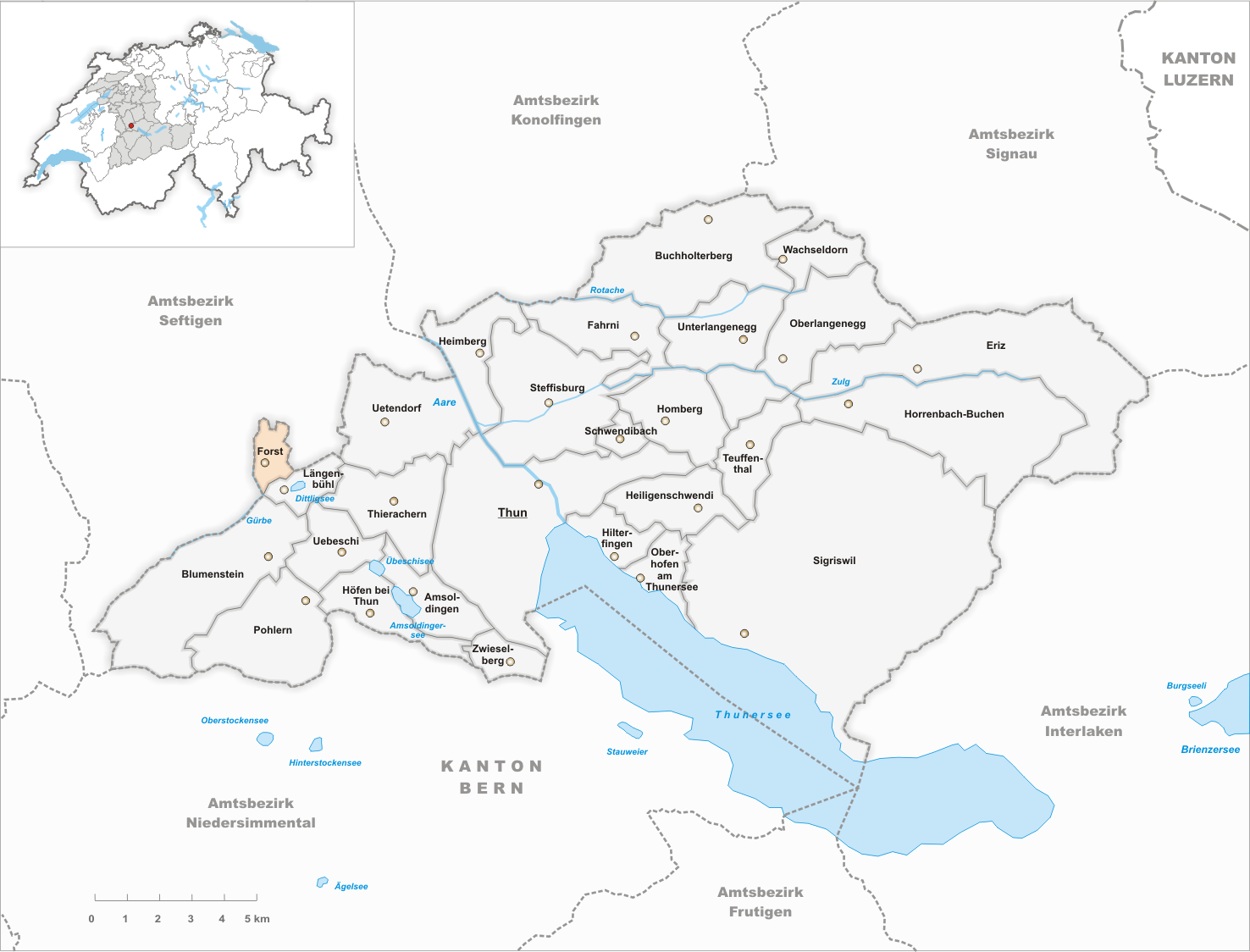 Municipality Forst